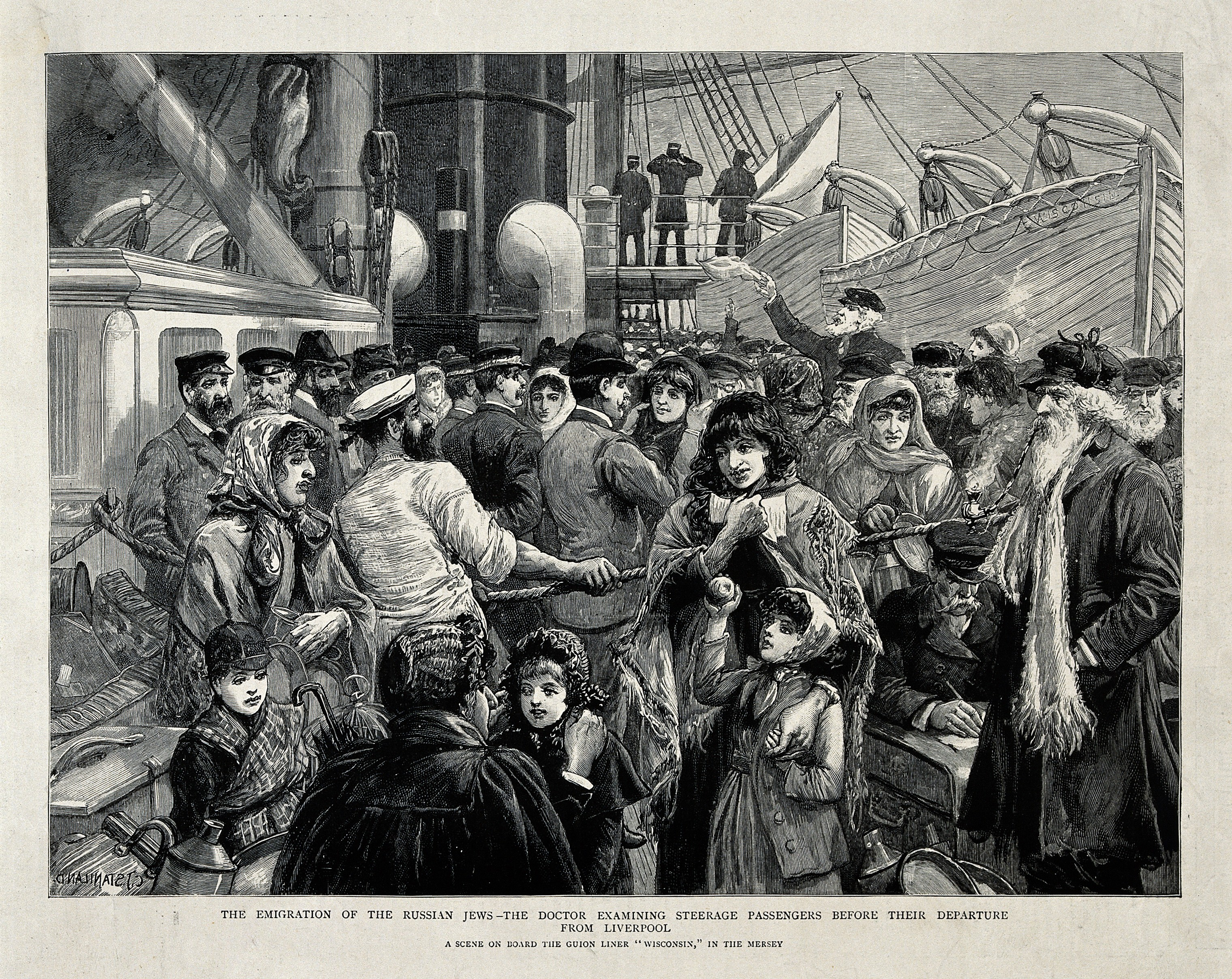 Russian jews being examined by a doctor before emigration from Liverpool. Wood engraving, 1891. Iconographic Collections Keywords: emigration; sailing; passenger ships